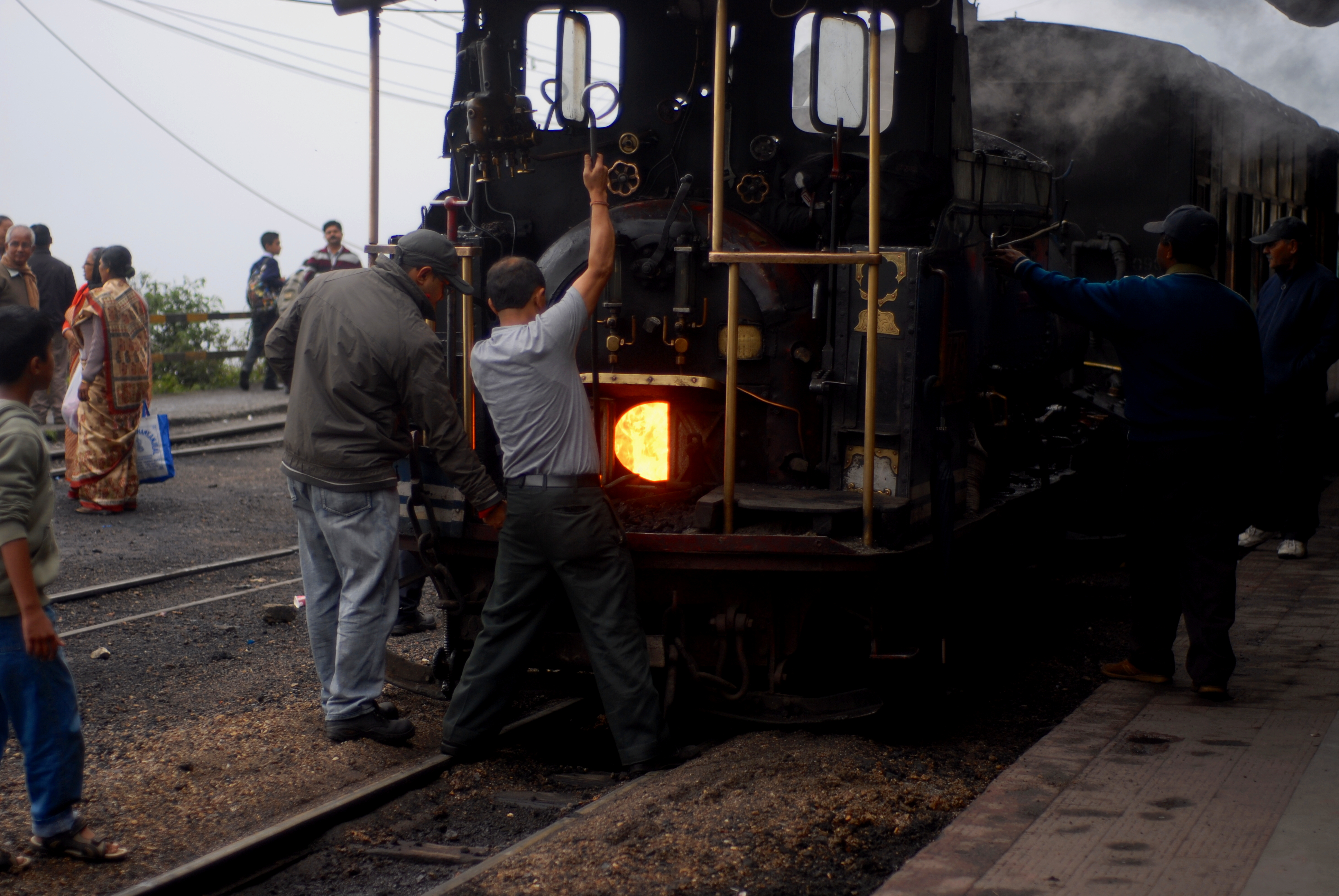 Toy train in Darjeeling being loaded with coal.